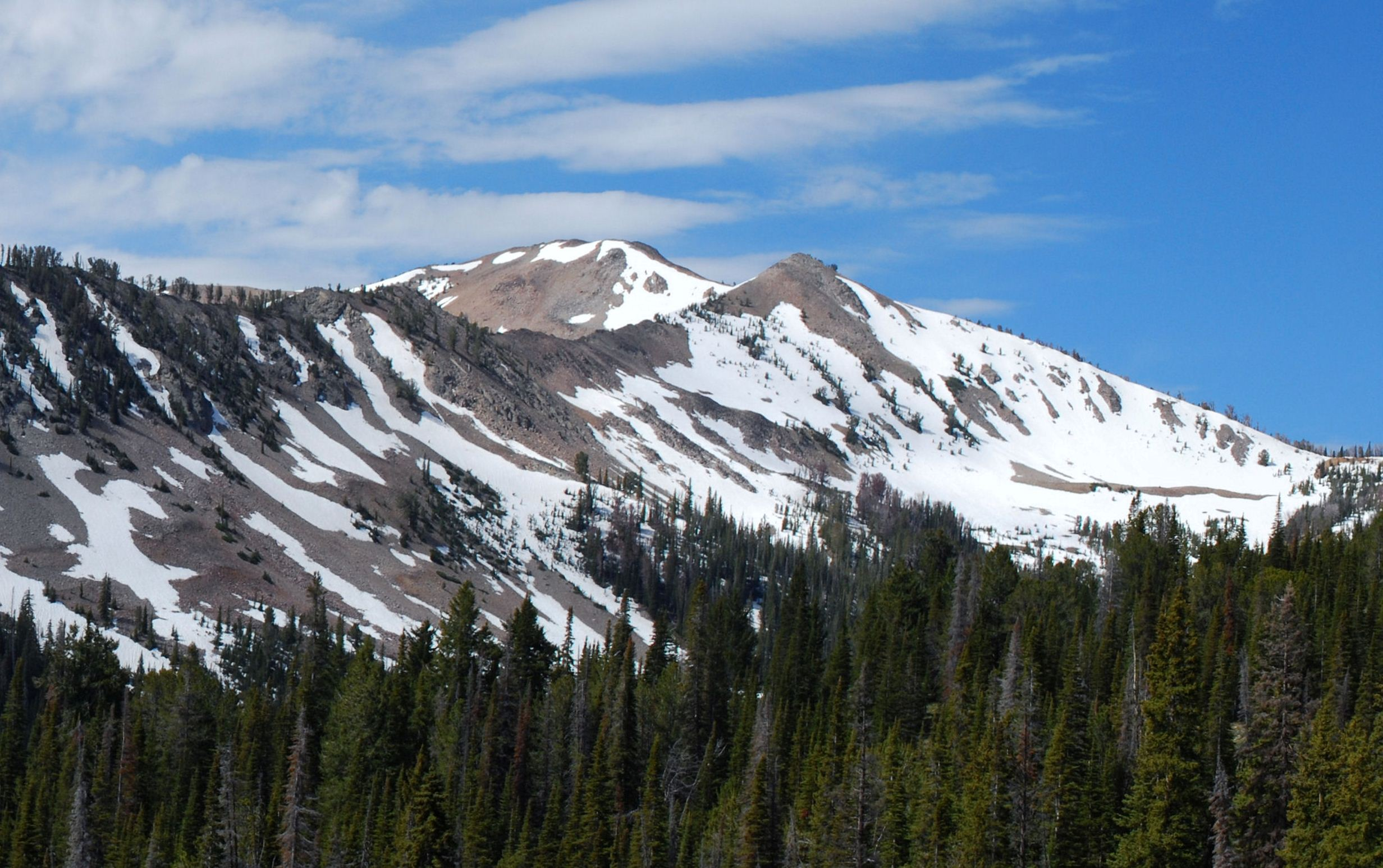 Baker Peak in the Smoky Mountains of Sawtooth National Forest in Blaine County, Idaho viewed from the Baker Lake Trail. Photo is a derivative of File:Baker Lake Trail Panorama.jpg by Byron Hetrick.